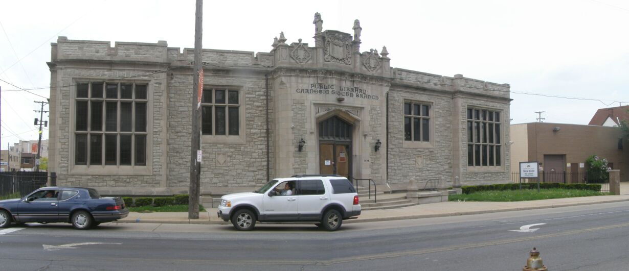 The South Branch Library of the Cleveland Public Library System. A Carnegie Library. The building closed on March 16, 2013 while an extensive community engagement program was launched. After an extensive community process performed by the Kent State University Cleveland Urban Design Collaborative (CUDC) for the Cleveland Public Library. The South Branch underwent a renovation and addition designed by local Cleveland firm HBM Architects and Interior Designers. The addition completed the original 1910 designs for the Branch with an entrance on Clark Avenue. The Library’s thought in 1911 was to revisit the building after the construction project with Carnegie funds were finished to complete the additional façade. The addition added a new façade with access to Clark Avenue, with a much needed ADA access as well as a large meeting room, and ADA restrooms. The project kept the original front stone façade as well as the interior woodwork and perimeter shelving. The Branch reopened to business on December 1, 2018.